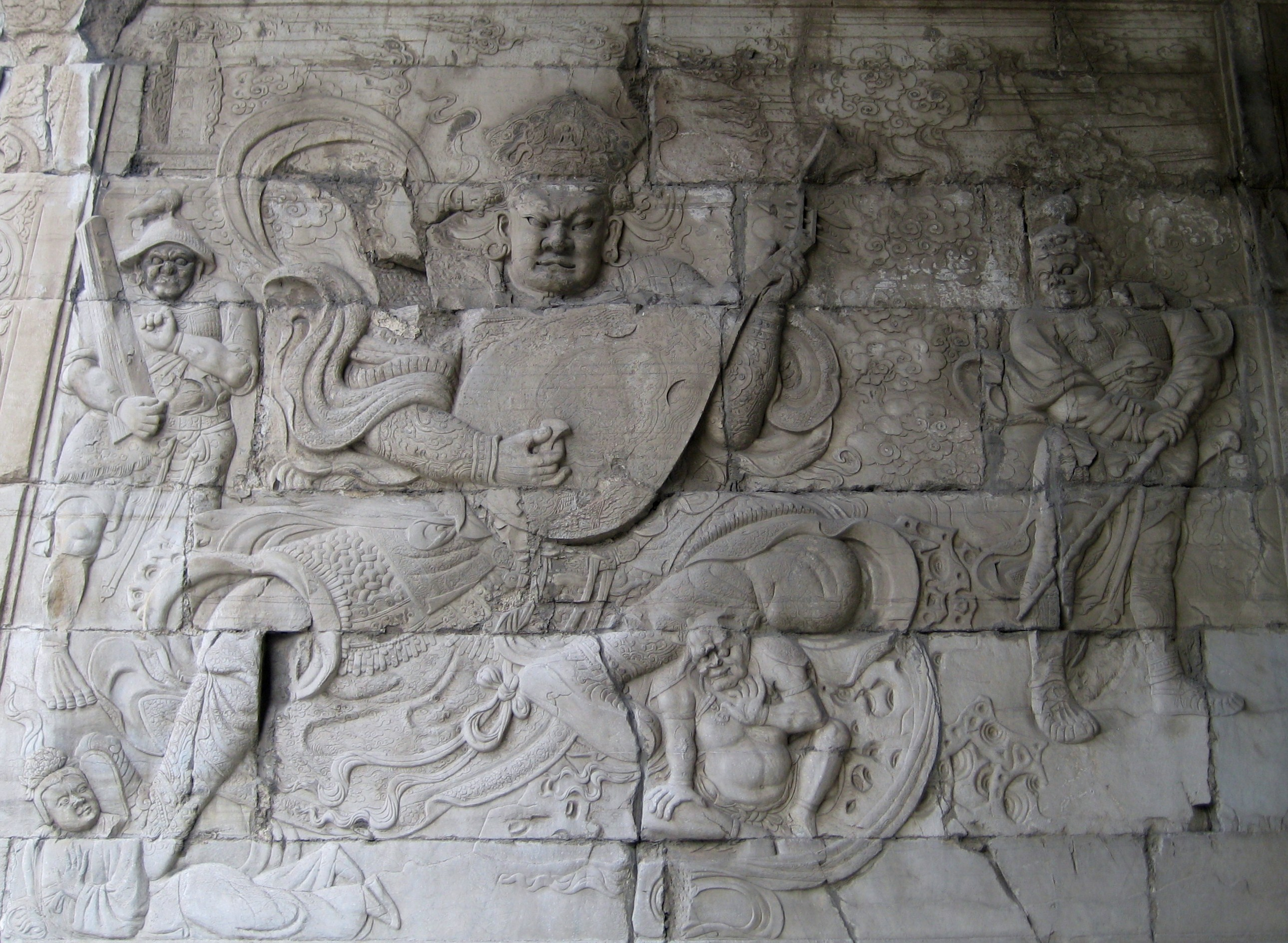 Relief carving of the Deva King of the East (Dhṛtarāṣṭra 持國天王) on the east interior wall of the Cloud Platform at Juyongguan.